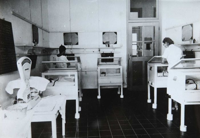 Room with incubators at the Children's Department of the Central Civil Hospital and Medical College at Batavia